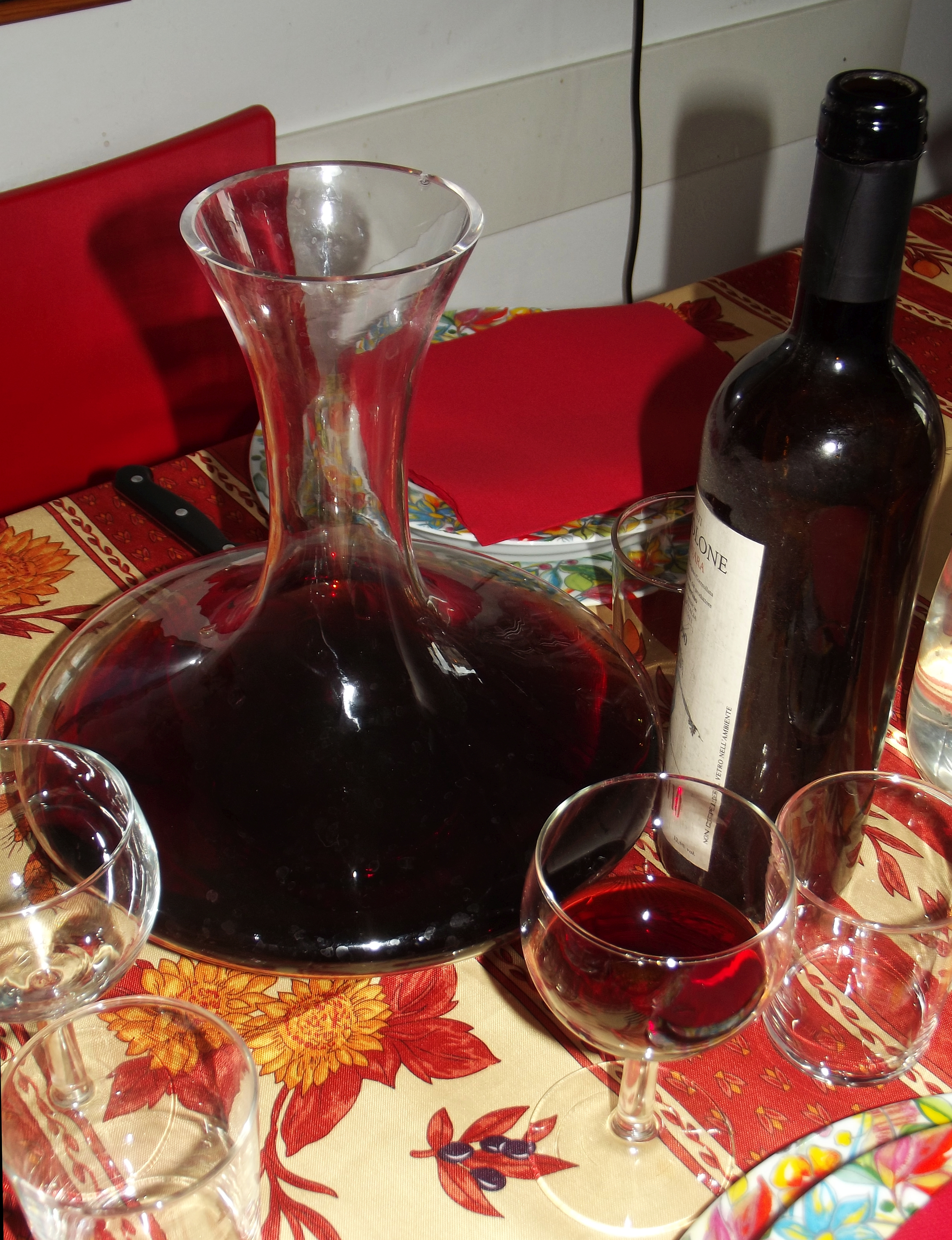 Gattinara 1990 Permolone wineyardin a decanter (January 2015)